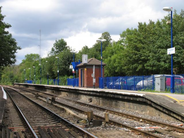 Midgham railway station. For more information see the Wikipedia article Midgham railway station.